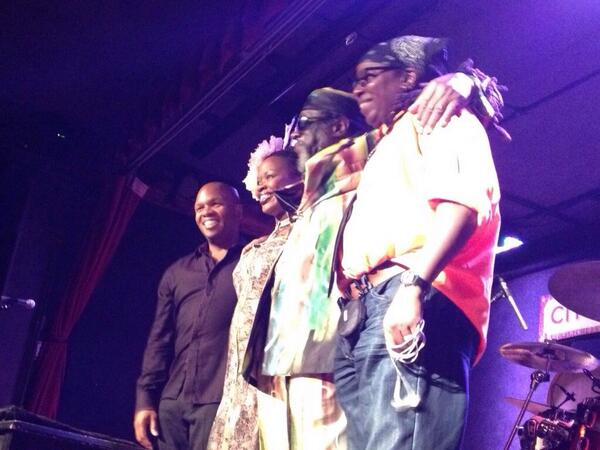 Harmelodic guitarist James Blood Ulmer, his vocalist and his band at City Winery, New York City - August 16, 2013 (from l. to r. - Mark Peterson, Queen Esther, James Blood Ulmer, G. Calvin Weston)